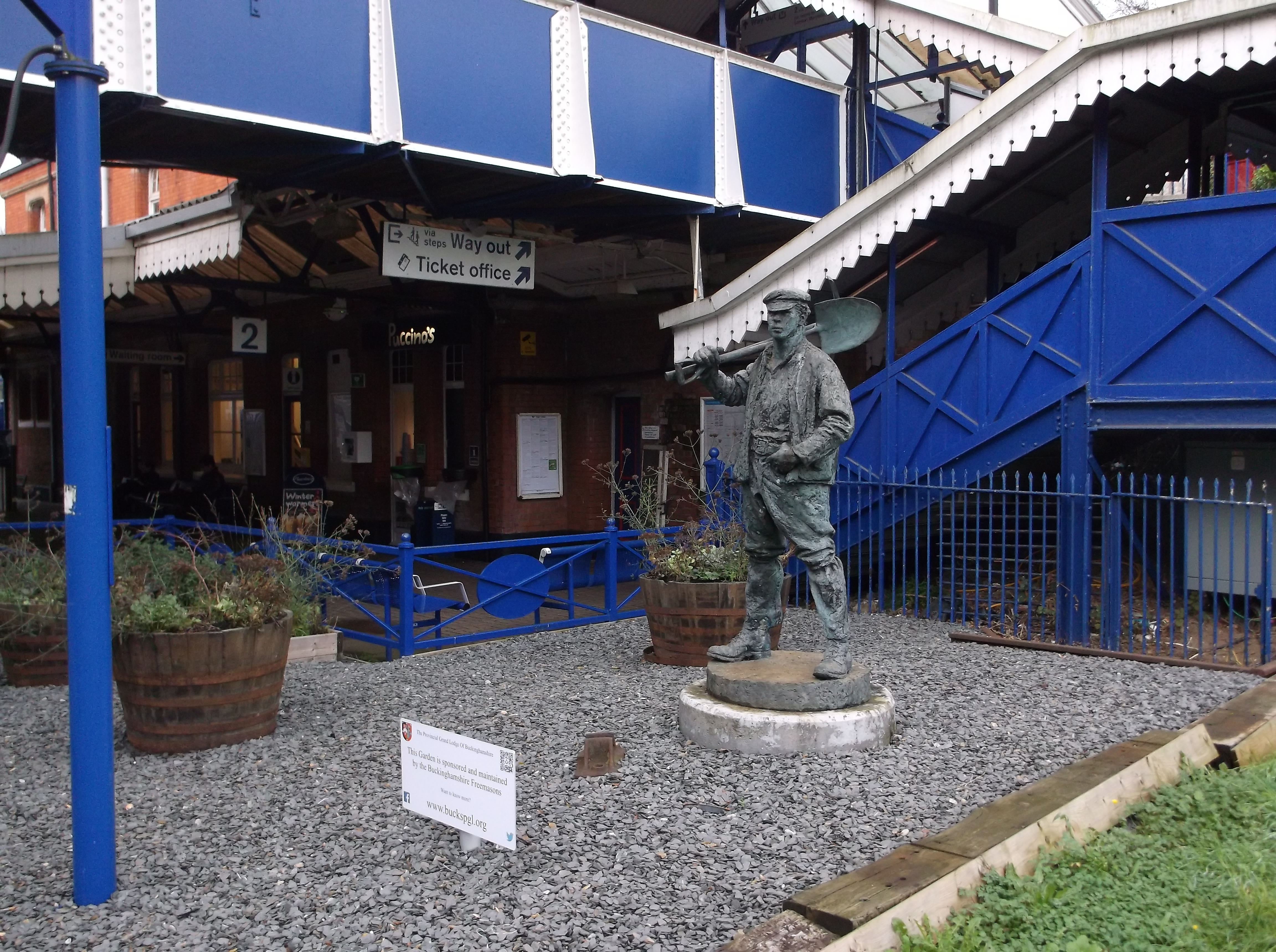 statue of a Victorian railway navvy at Gerrards Cross station